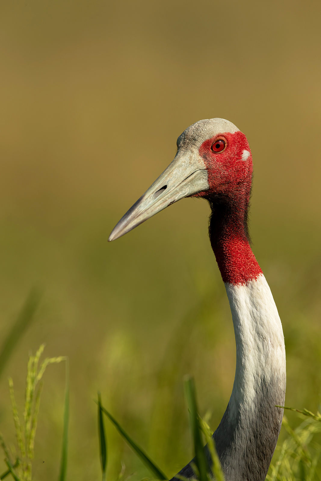 A closeup shot showing the details of head